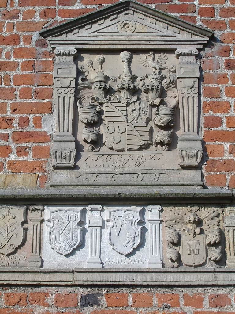 Coat-of-arms of Duke Francis II of Duchy of Saxony, Angria and Westphalia (Lauenburg) (1547–1619, Duke since 1581), to which the Land of Hadeln used to belong, below coats-of-arms of Hadelian peasant families at the quire of St. James Church in Lüdingworth, Cuxhaven. The coat of arms as used between 1507 and 1671 shows in the upper left quarter the Ascanian barry of ten, in or and sable, covered by a crancelin of rhombs (they are not shown in this undetailed copy) bendwise in vert.[1] The crancelin symbolises the Saxon ducal crown. The second quarter shows in azure an eagle crowned in or, representing the imperial Pfalzgraviate of Saxony. The third quarter displays in argent three water-lily leaves in gules, standing for the County of Brehna. The lower right fourth quarter repeats the first quarter. The Lauenburg branch duchy adopted this coat-of-arms from Saxe-Wittenberg, displaying the coats-of-arms of parts of that duchy. However, the quarters, then used for the Duchy of Saxony, Angria and Westphalia (Lauenburg), were later often misinterpreted as symbolising Angria (Brehna's water-lily leaves) and Westphalia (the comital palatine Saxon eagle). Foto von Benutzer:Geoz 2005